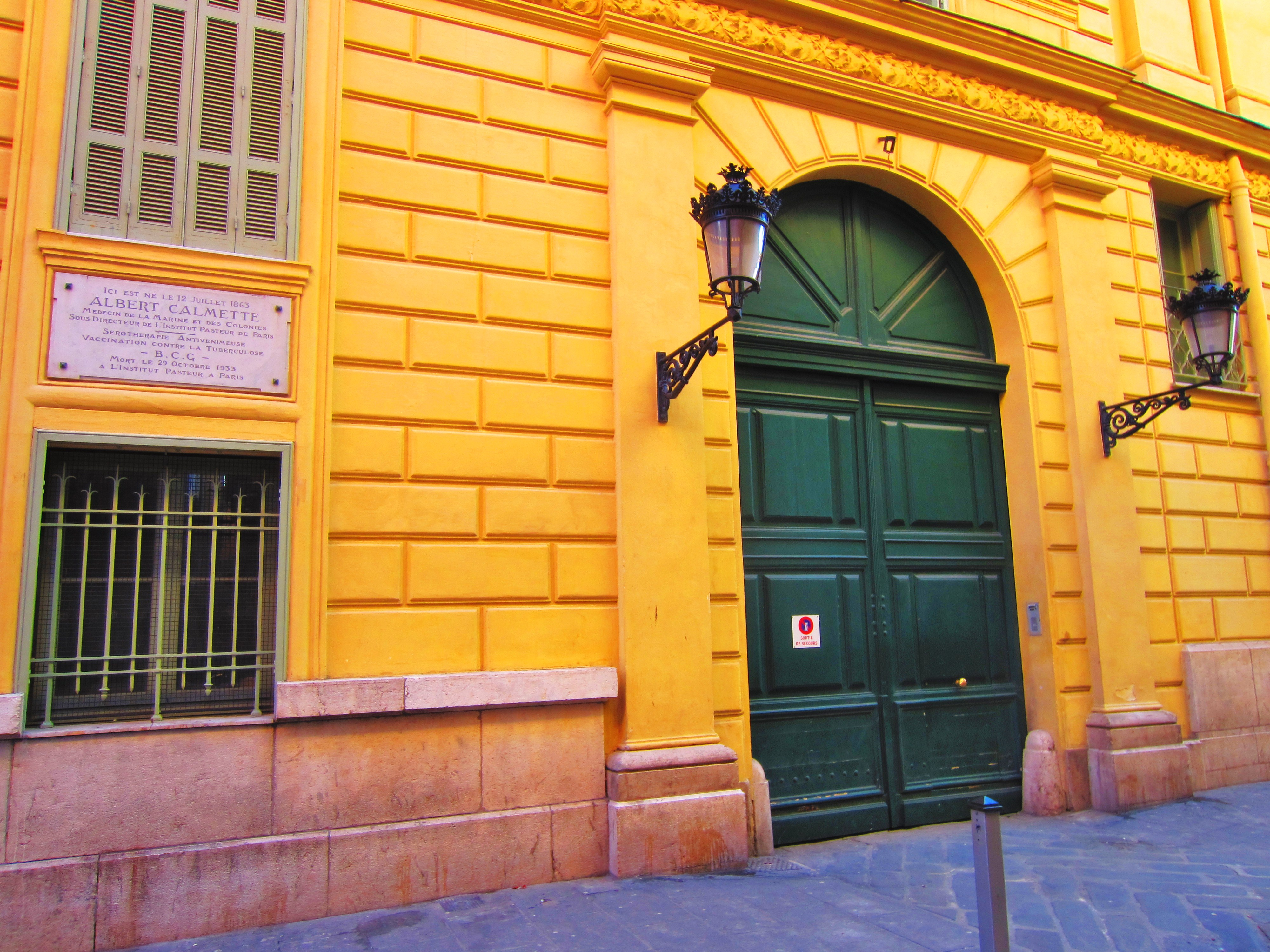 albert calmette house Nice